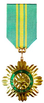 Order of Parasat